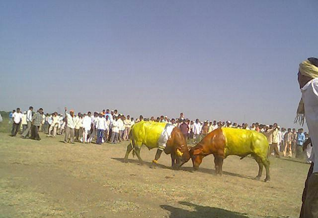 On the occasion of Diwali festival the villagers arrange for fight of male buffaloes in Chaugaon.